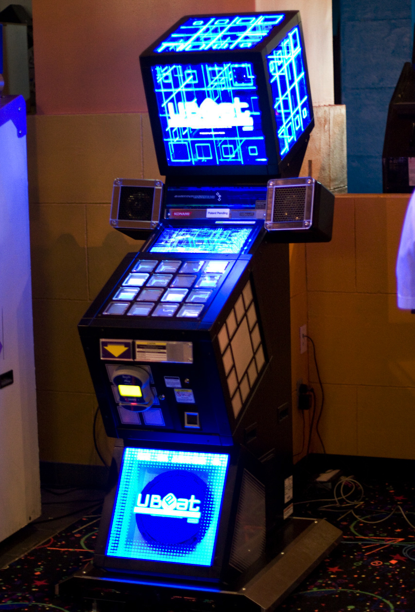 A full view of a UBeat machine. Taken at Boomers! in Irvine, California.